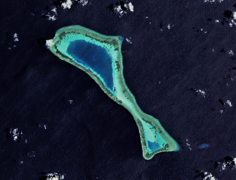 Mariveles Reef is an atoll of Spratly Islands.